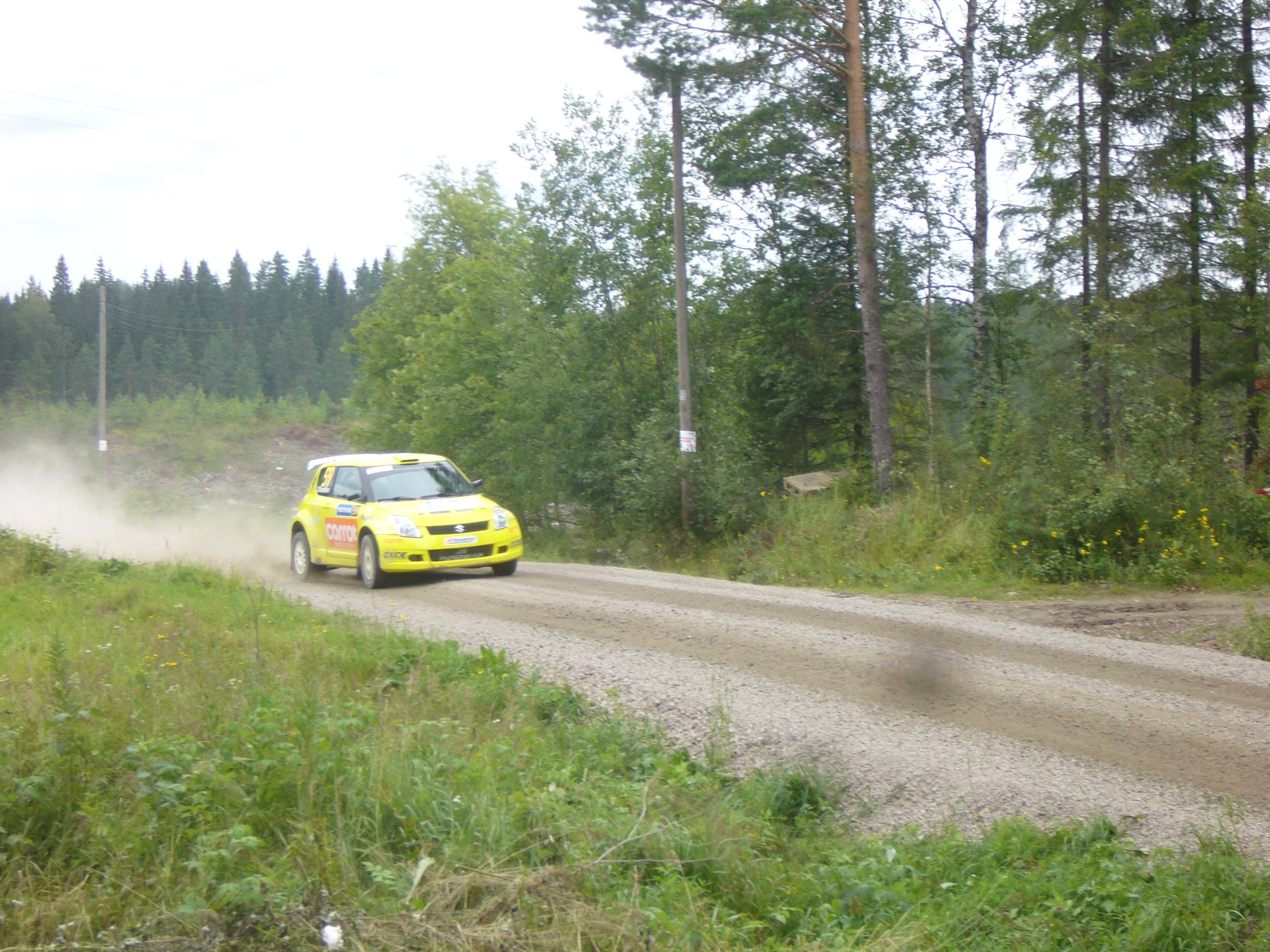 Finnish JRC-rallydriver Tapio Suominen in Palsankylä special stage, Neste Oil Rally Finland 2007.